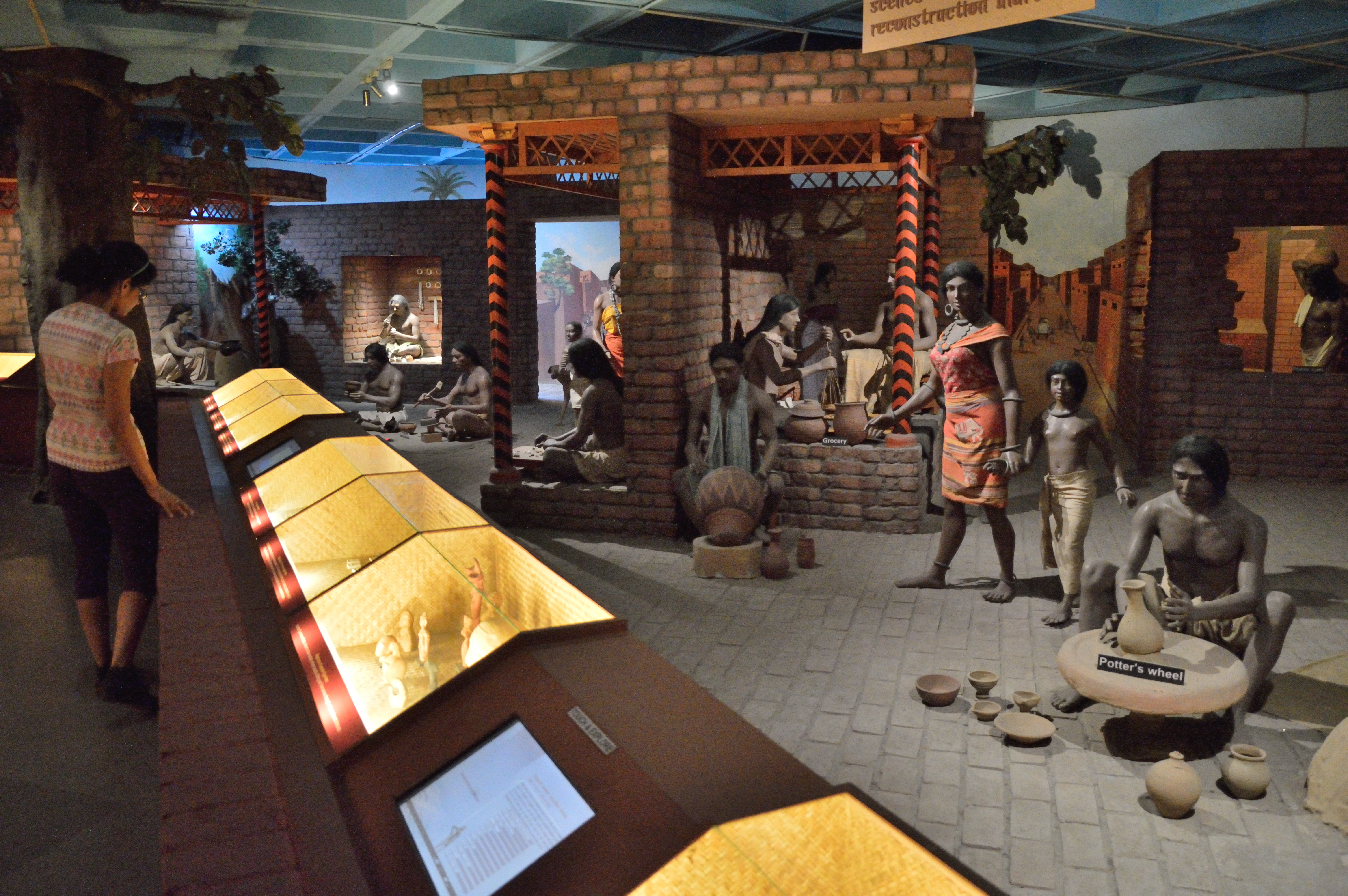 Photographed in New Delhi.